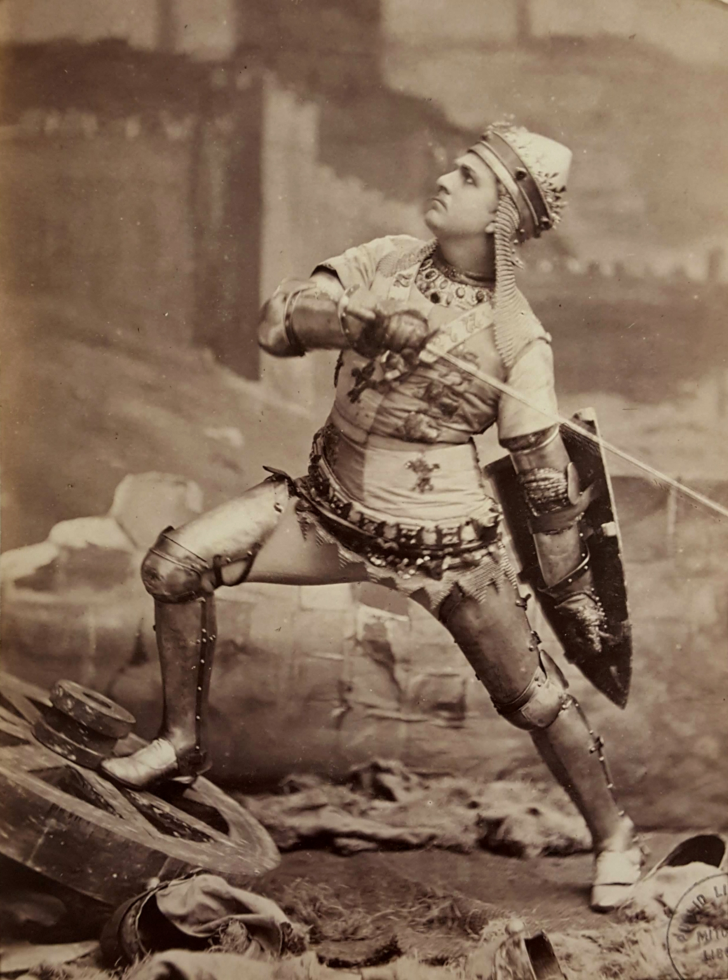 George Rignold as Henry Fifth, 1877, carte-de-visite, State Library of New South Wales PXA 362 Vol.3 p.35